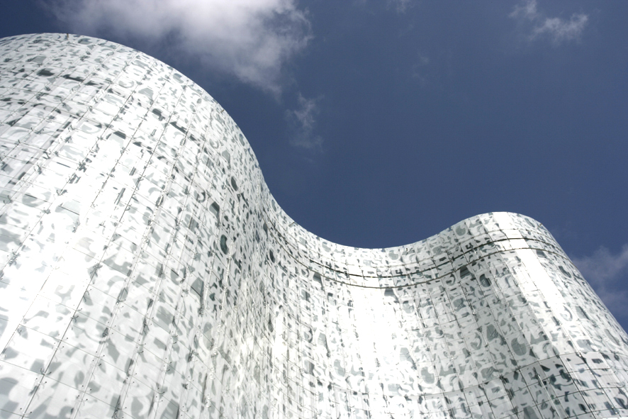 information communication and multimedia center Cottbus (IKMZ)